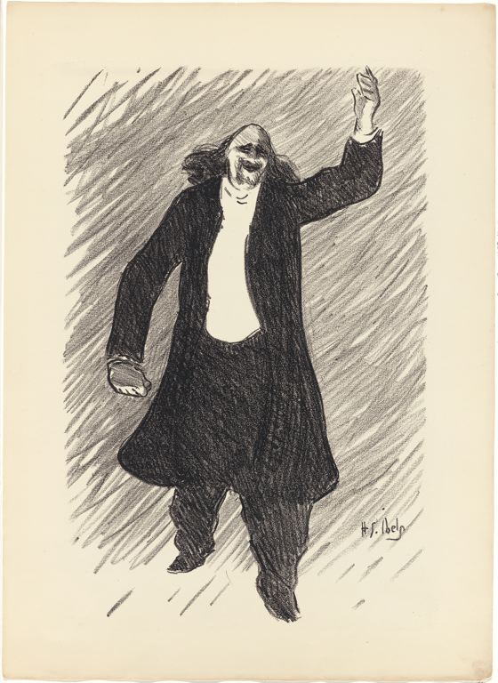 Marcel Legay, from Le Café-Concert, 1893. Printed by Edward Ancourt & Cie, published by L'Estampe .